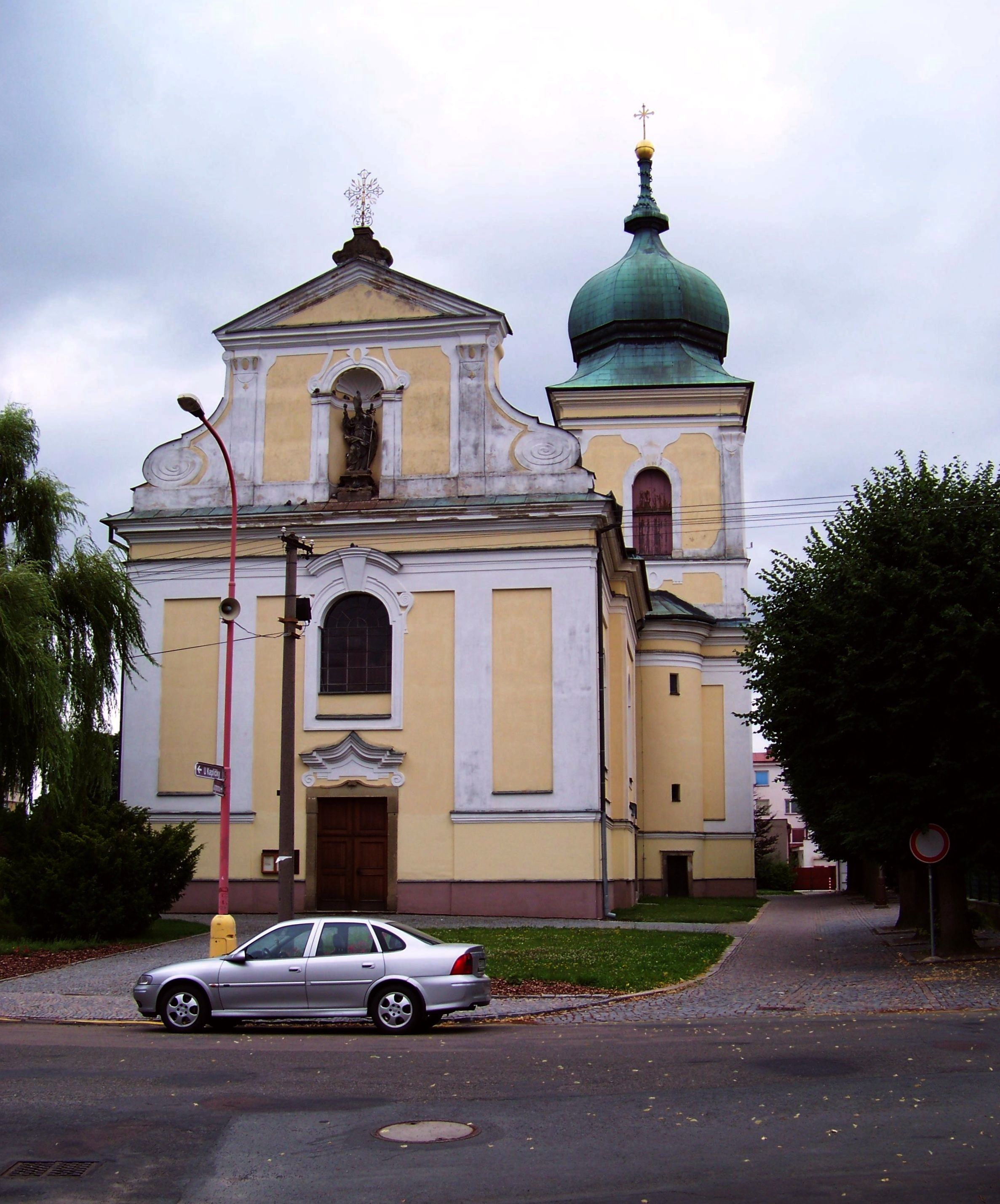 Holice, Pardubice District, Pardubice Region, the Czech Republic. Komenského street, Saint Martin Church.